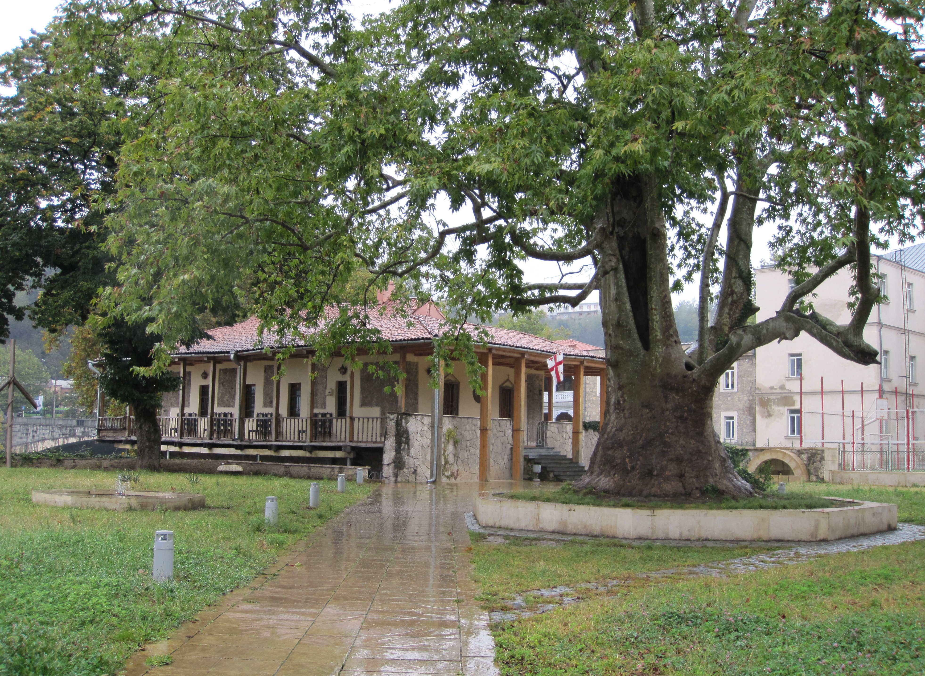 "Okros Chardakhi" (Golden Marquee), the only surviving structure of the 17th-18th-century palace of the kings of Imereti. Kutaisi, Georgia